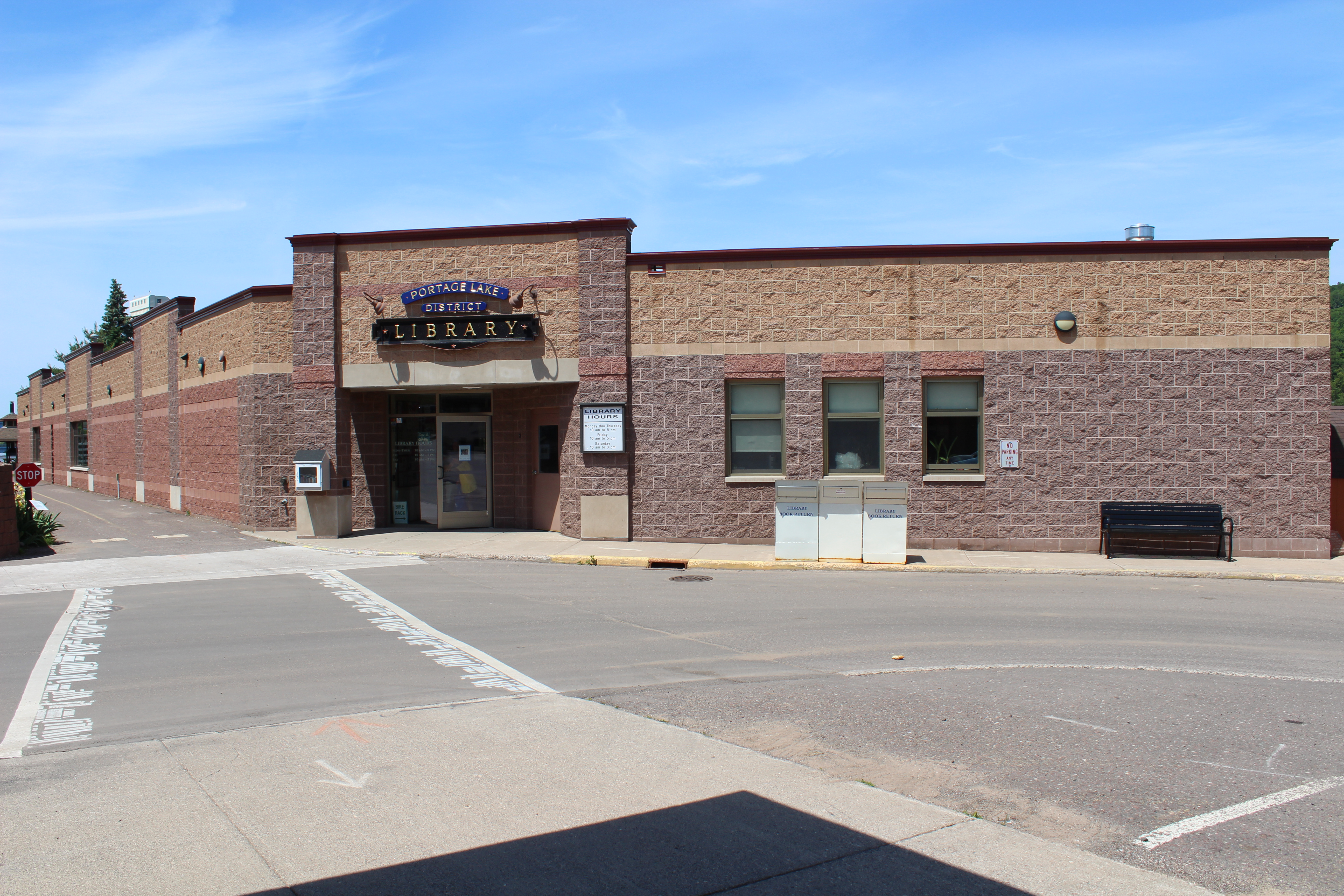 Entrance of the Portage Lake District Library in Houghton, Michigan. Looking northwest.